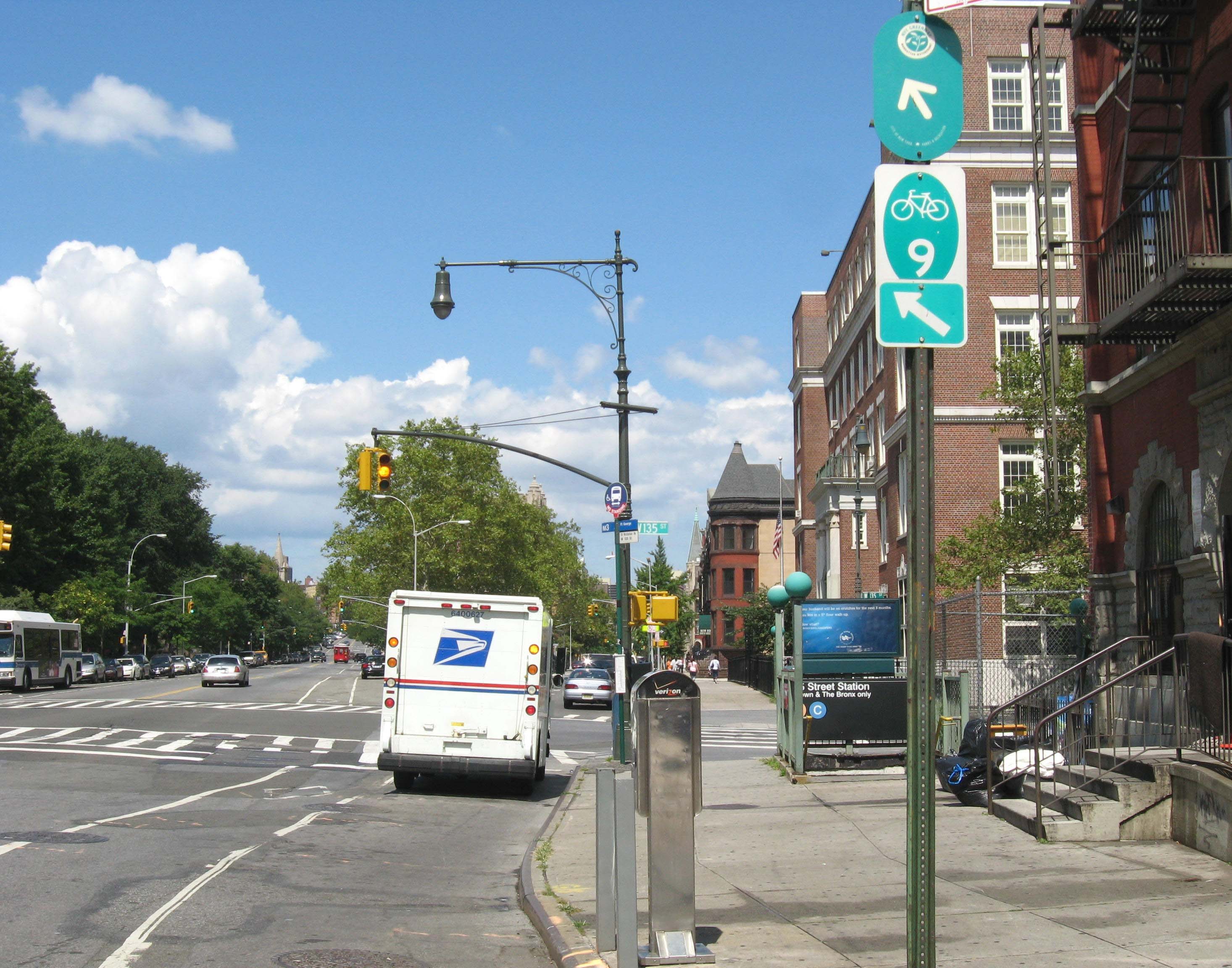 Looking north, uphill, along Saint Nicholas Avenue (Manhattan) or Bike Route 9 at en:135th Street (IND Eighth Avenue Line) on a partly cloudy midday